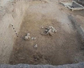 2,000-year-old settlement and cemetery discovered in the central Georgian village of Khovle